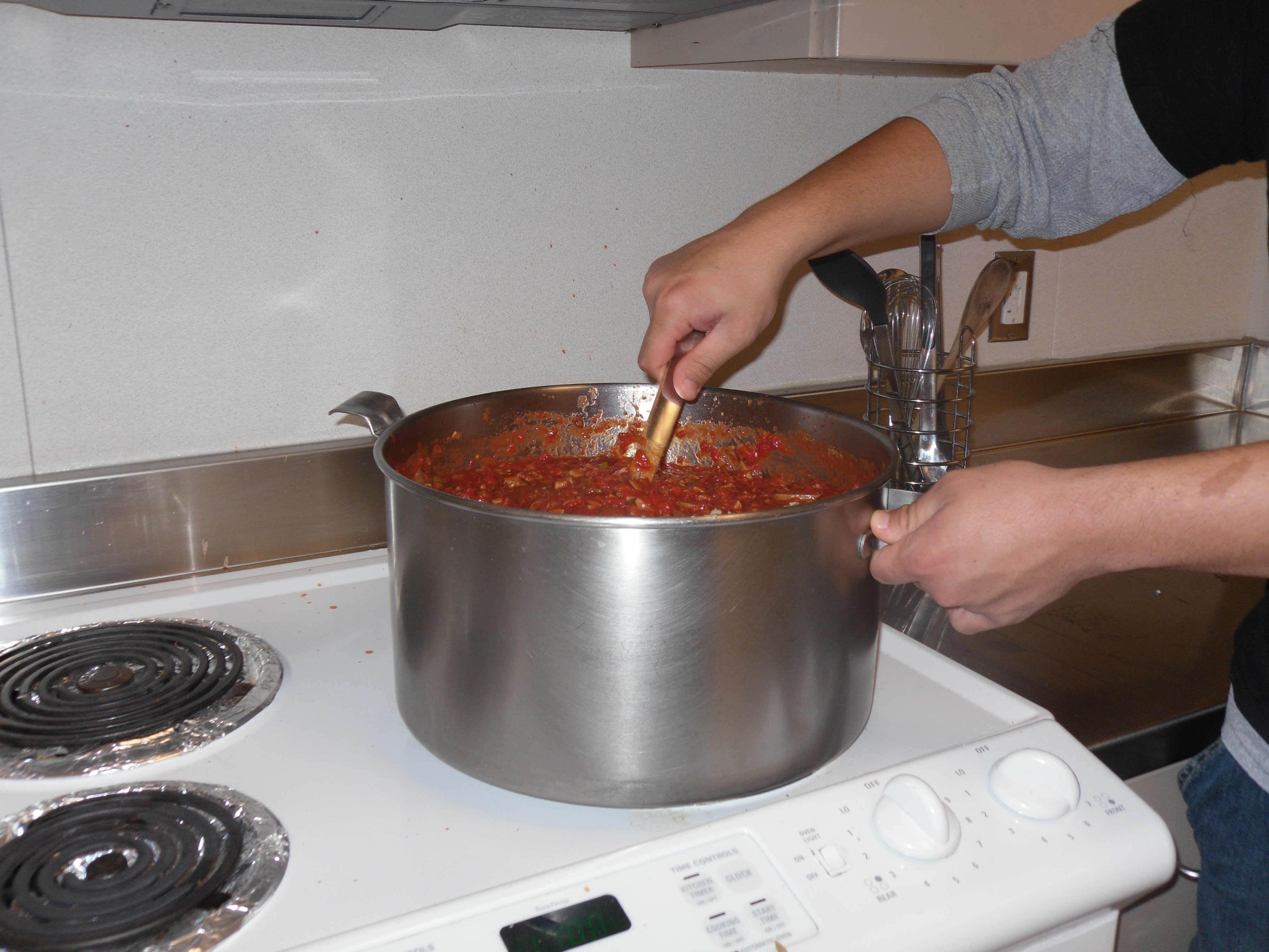 A pot of canned pasta sauce stirring on the stove.